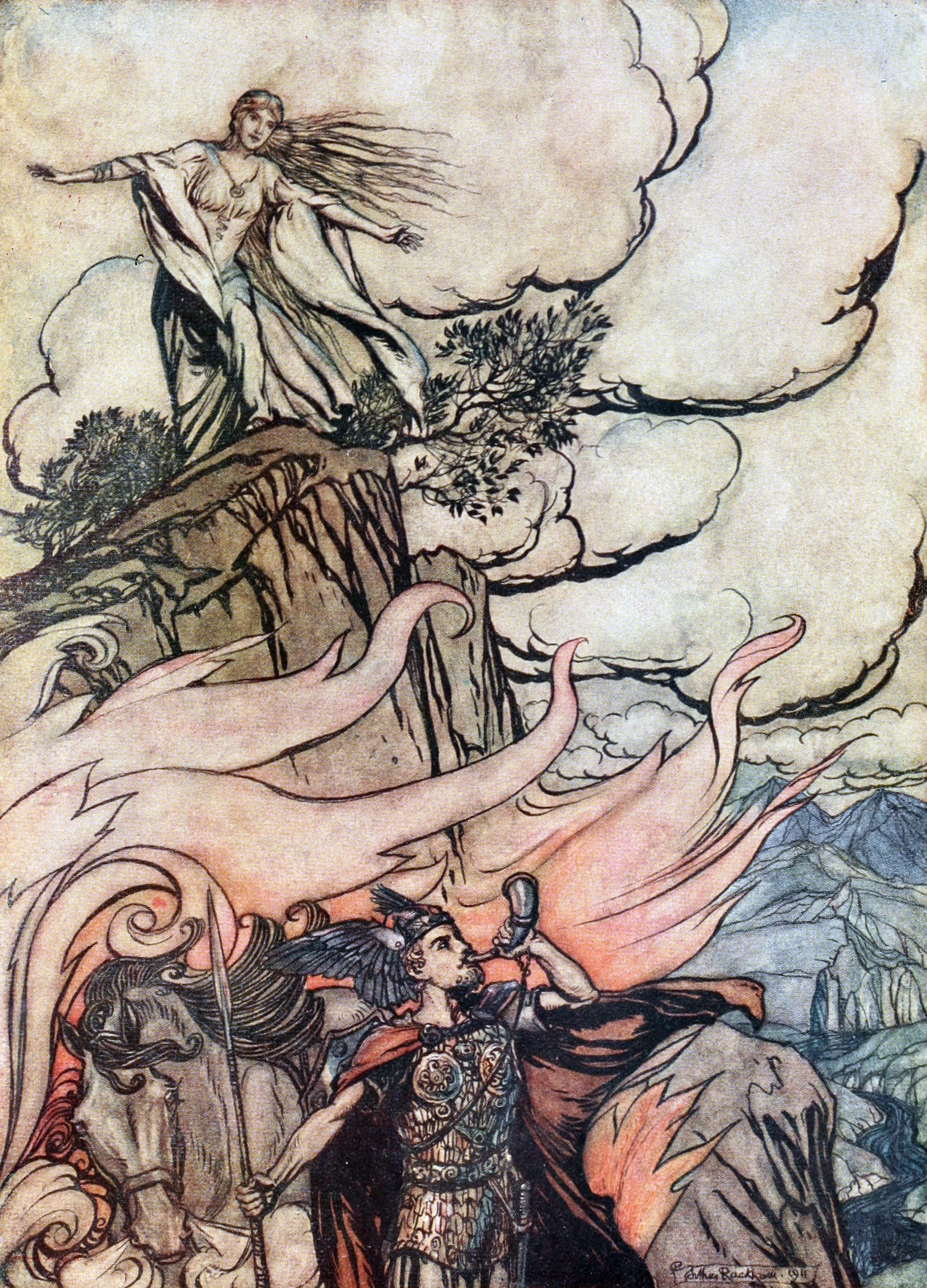 Siegfried leaves Brünnhilde in search of adventure.